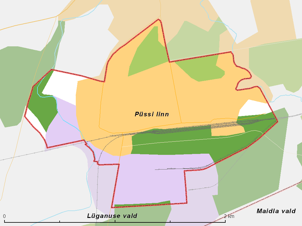 Map of municipality in Estonia